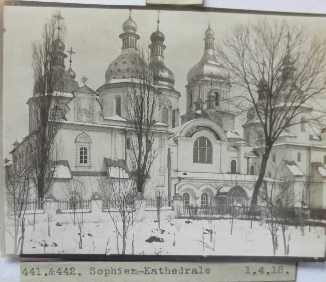 Photo of Ukraine from an album of an unknown German soldier taken during World War I.